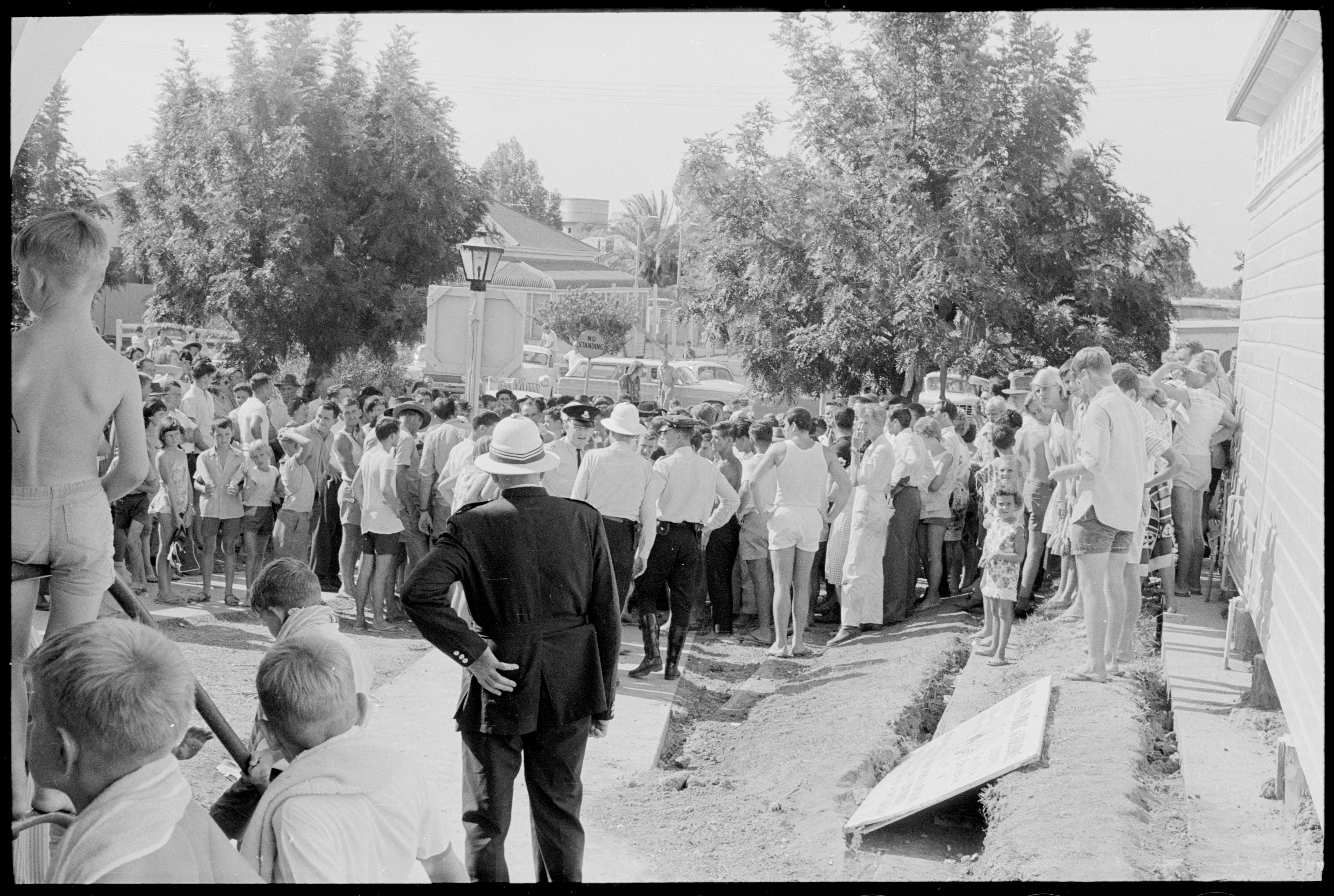 Can you help identify the people and places documented in this photograph? Call Number: ON 161/220 Format: photonegative, 35mm Find more detailed information about this photograph: Search for more great images in the State Library's collections: .au/search/SimpleSearch.aspx From the collection of the State Library of New South Wales